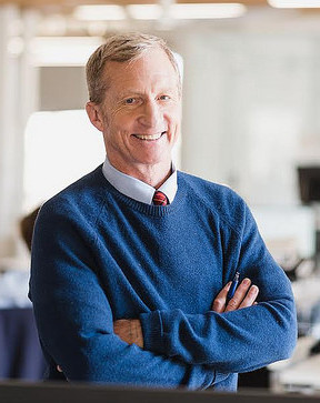 Tom Steyer